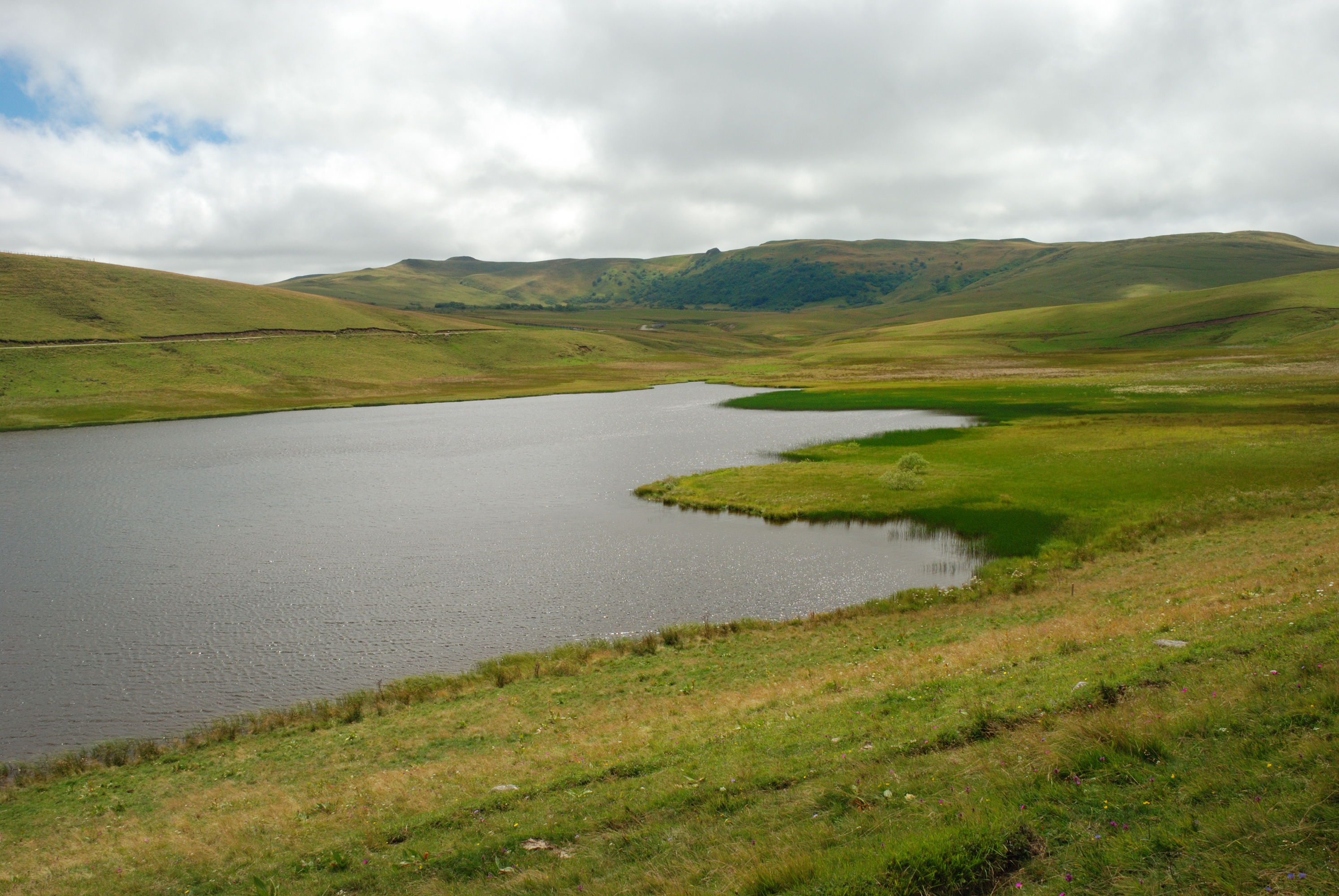 Lake of Saint-Alyre in the Cézallier area (Puy-de-Dôme, France. Translations in other languages are welcome.